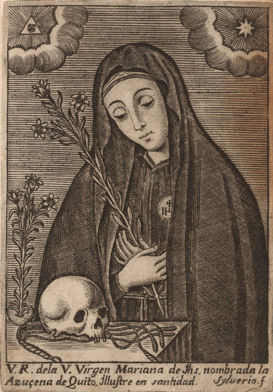 Portrait of Mariana de Jesus of Quito holding a lily with a skull and whip or scourge for flagellation. Also includes the Jesuit symbol for Jesus, as well the Eye of Providence. Scan of an engraving created in 1732 by Francisco Sylverio de Sotomayor (b. 1699-ca. - d. 1763)